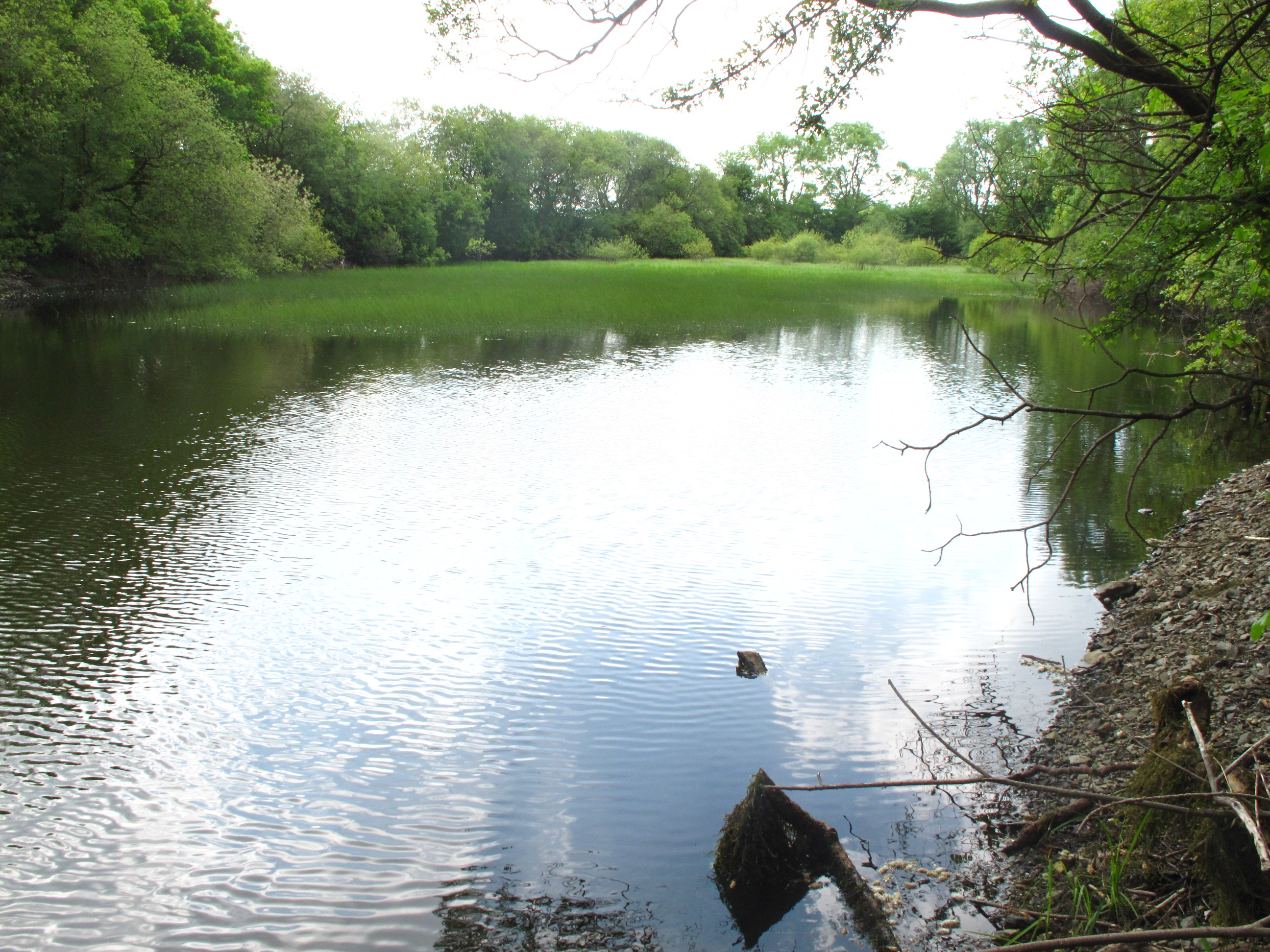 Pant-y-Llyn Turlough Wales June 2010 view from northern end of lake looking south